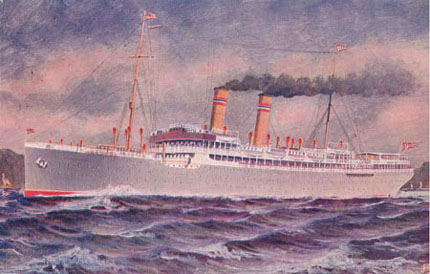 SS Kristianiafjord or SS Bergensfjord (the two ships were identical, and the painting could be of either one.)